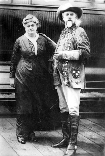 Buffalo Bill and wife by train Kent's Studio, Chehalis, Wash.